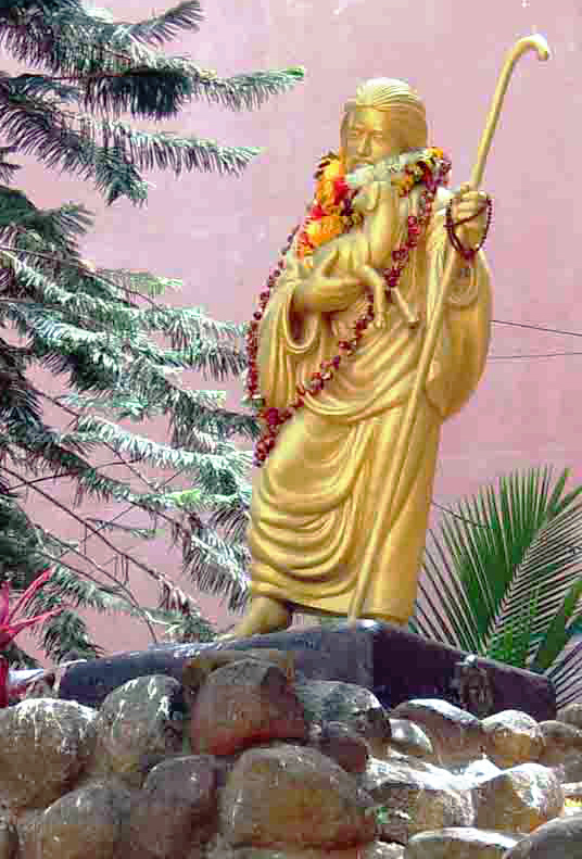 The sculpture of Jesus Christ in the ashram of Sathya Sai Baba, Prasanthi Nilayam, Puttaparthi, Andhra Pradesh, India